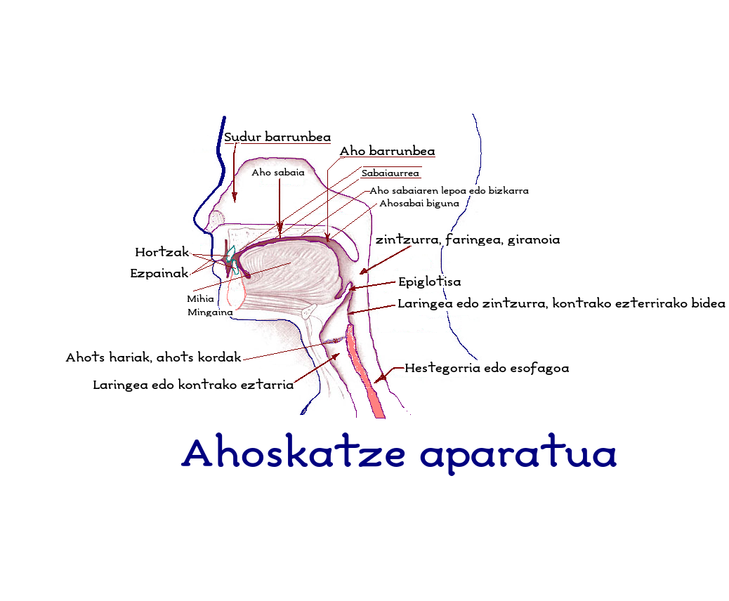 Head and Neck Overview. Basque captions. From